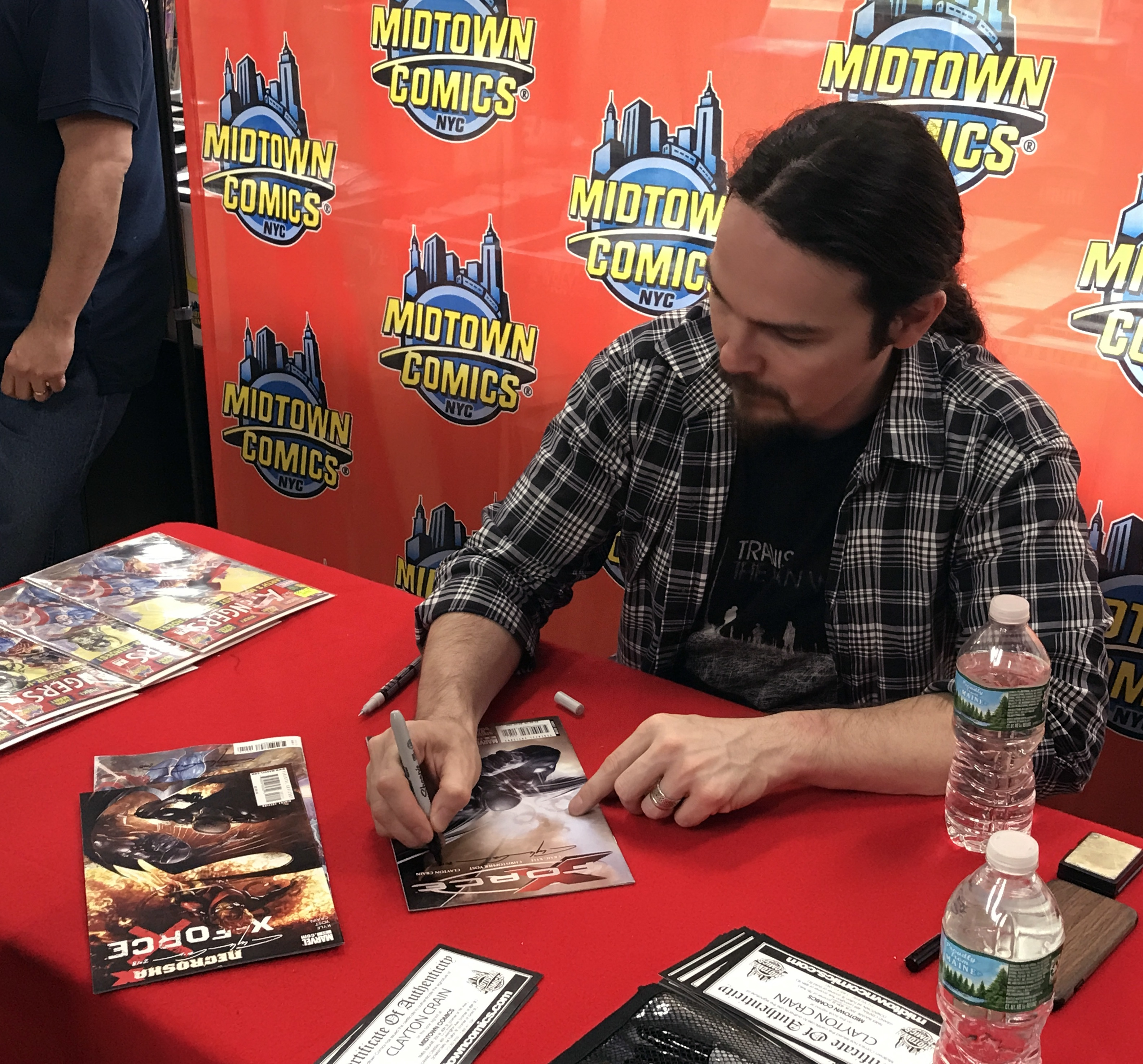 Comics artist Clayton Crain at a May 5, 2018 signing for Avengers (Vol 8) #1, whose cover Crain illustrated, at Midtown Comics Downtown in Manhattan. In the photo, Crain is signing copies of X-Force, another book that he previously illustrated. This photo was created by Luigi Novi. It is not in the public domain, and use of this file outside of the licensing terms is a copyright violation.